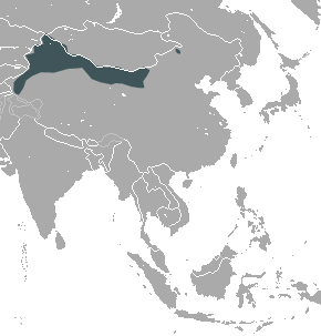 Desert Hare (Lepus tibetanus) range